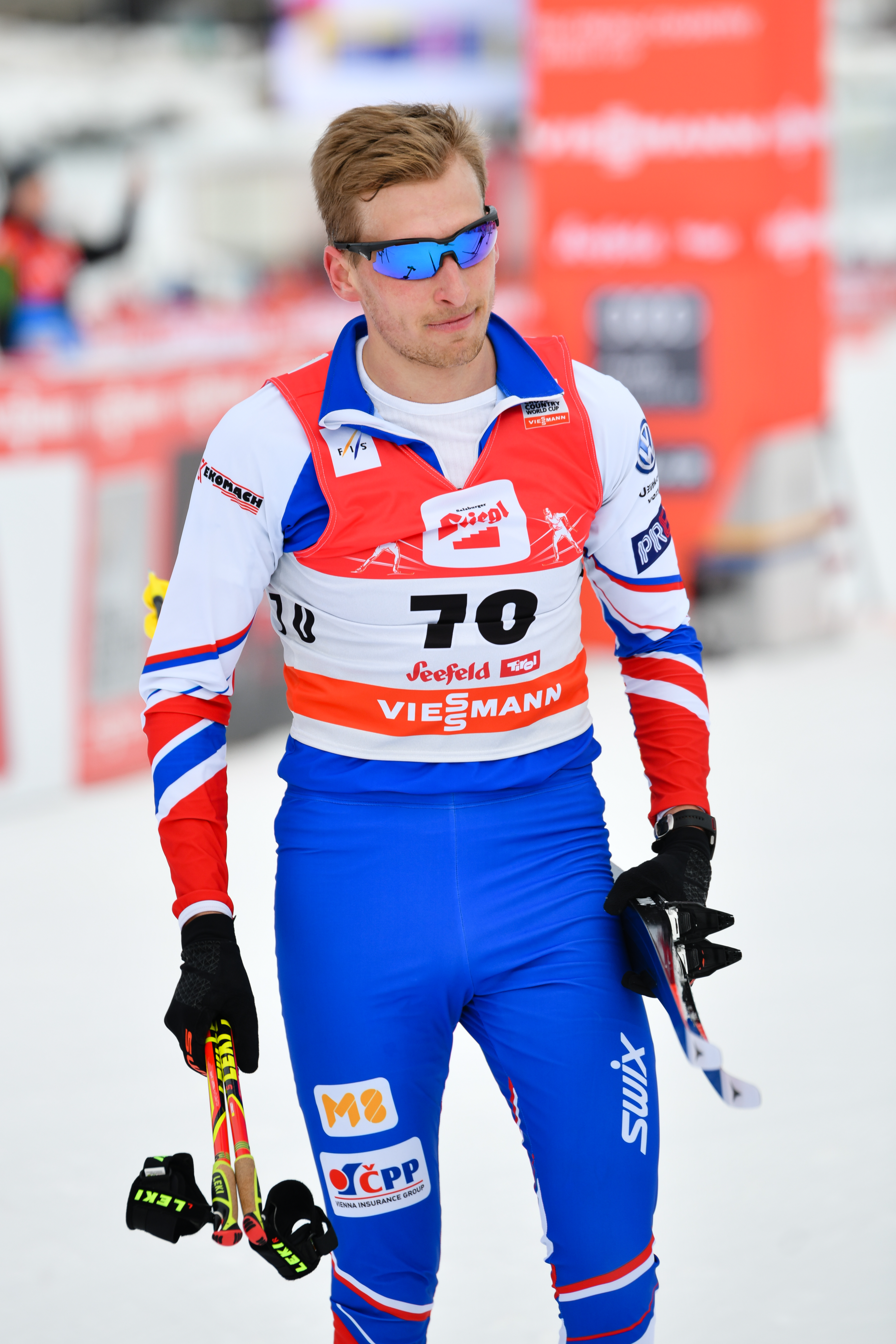 Seefeld-Triple 2018, third day January 28th. Picture shows RYPL Miroslav (CZE).